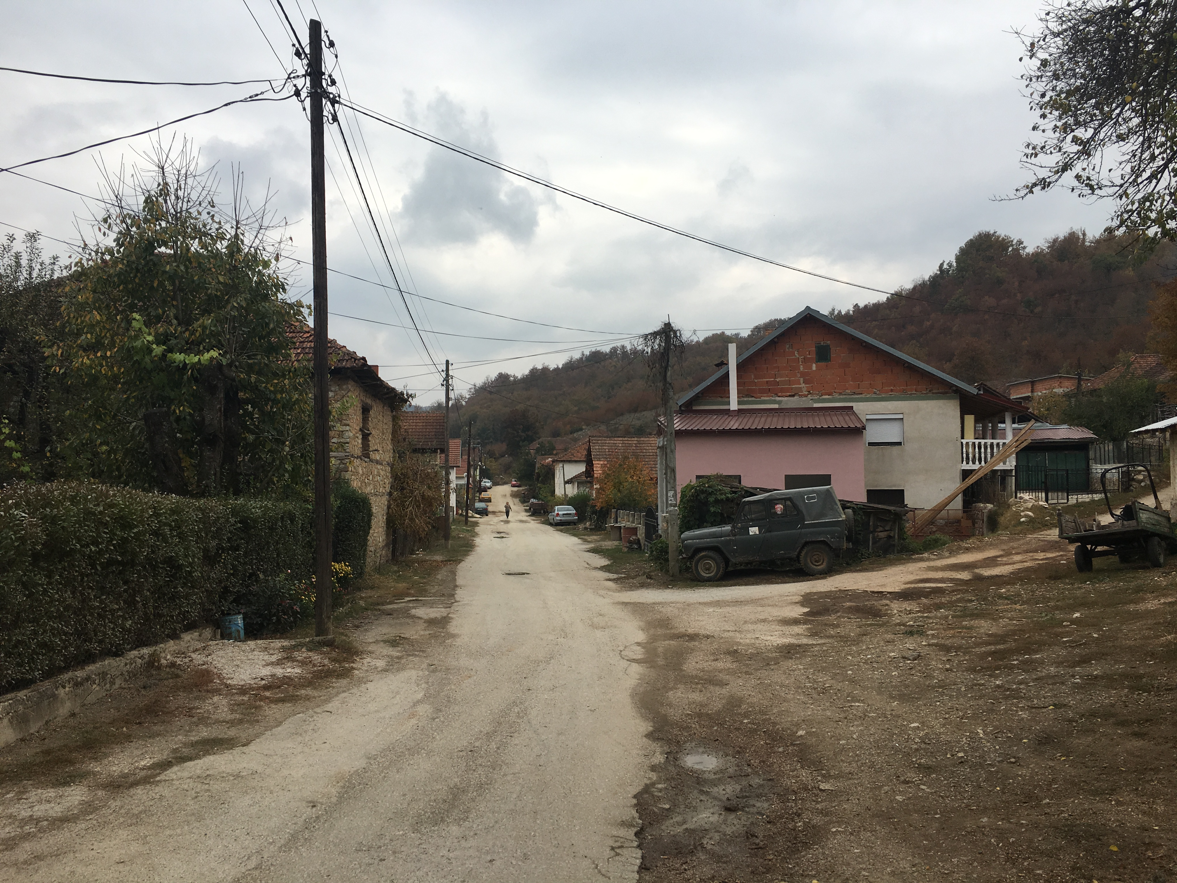 Wikiexpedition to Kopačka